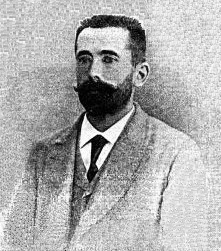 Emile Mayade - driver of Panhard et Levassor in 1894 and 1896 French events.